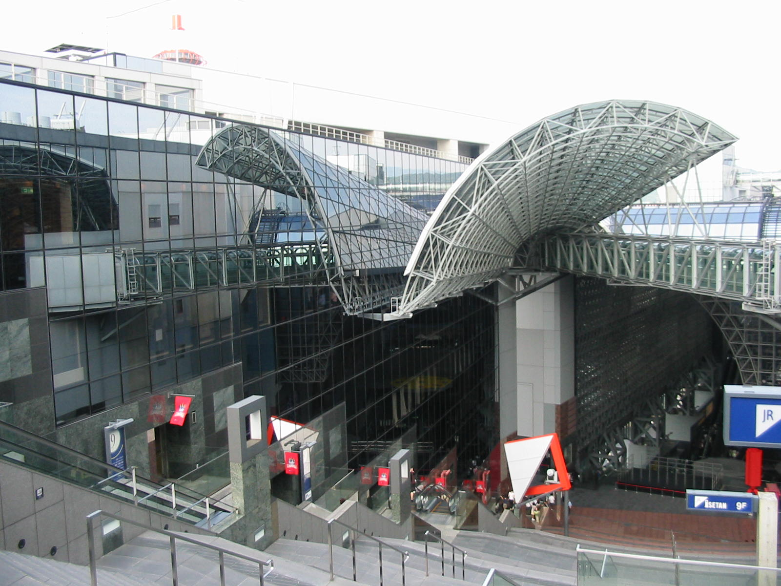 Kyōto station